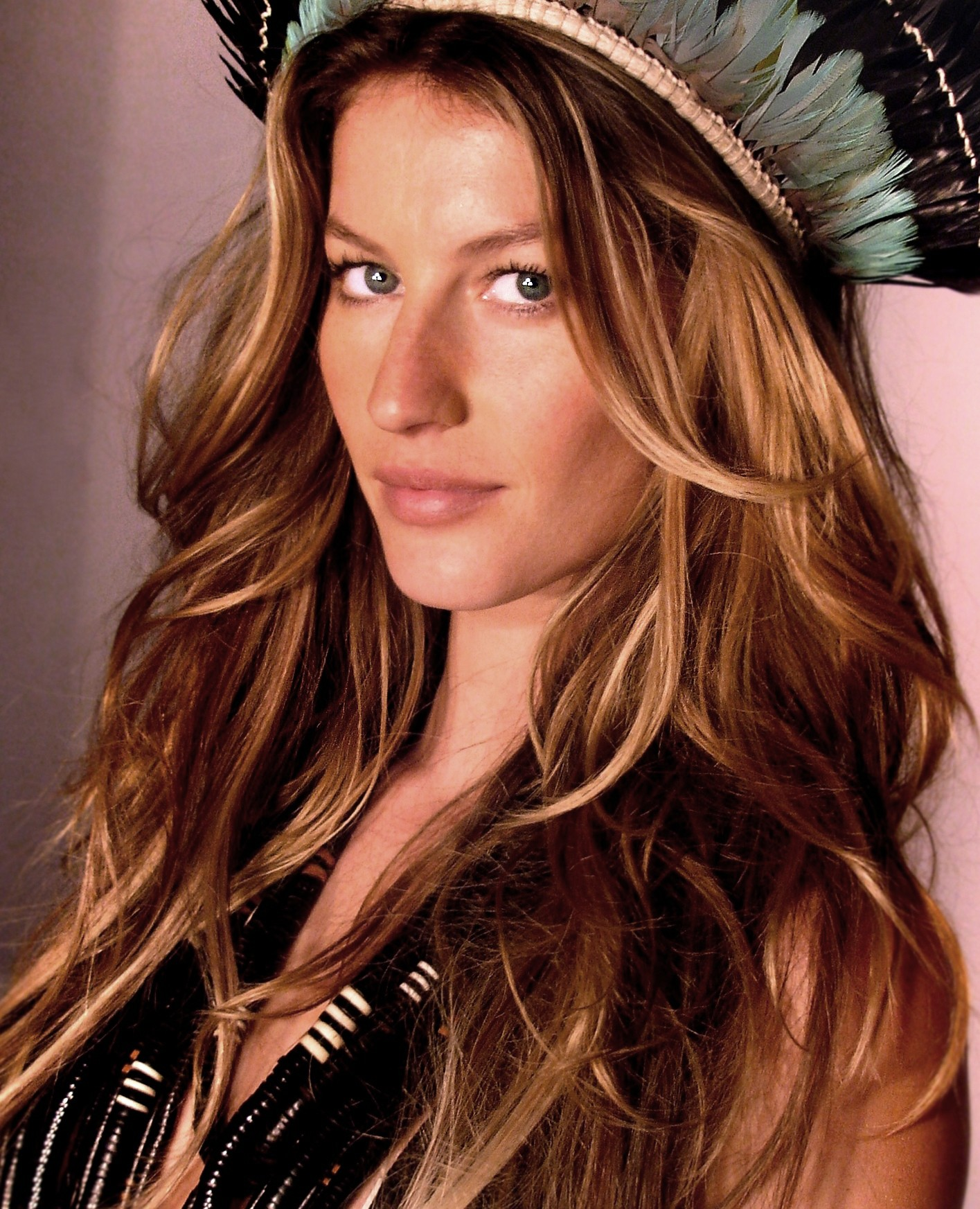 Gisele Bündchen 2006